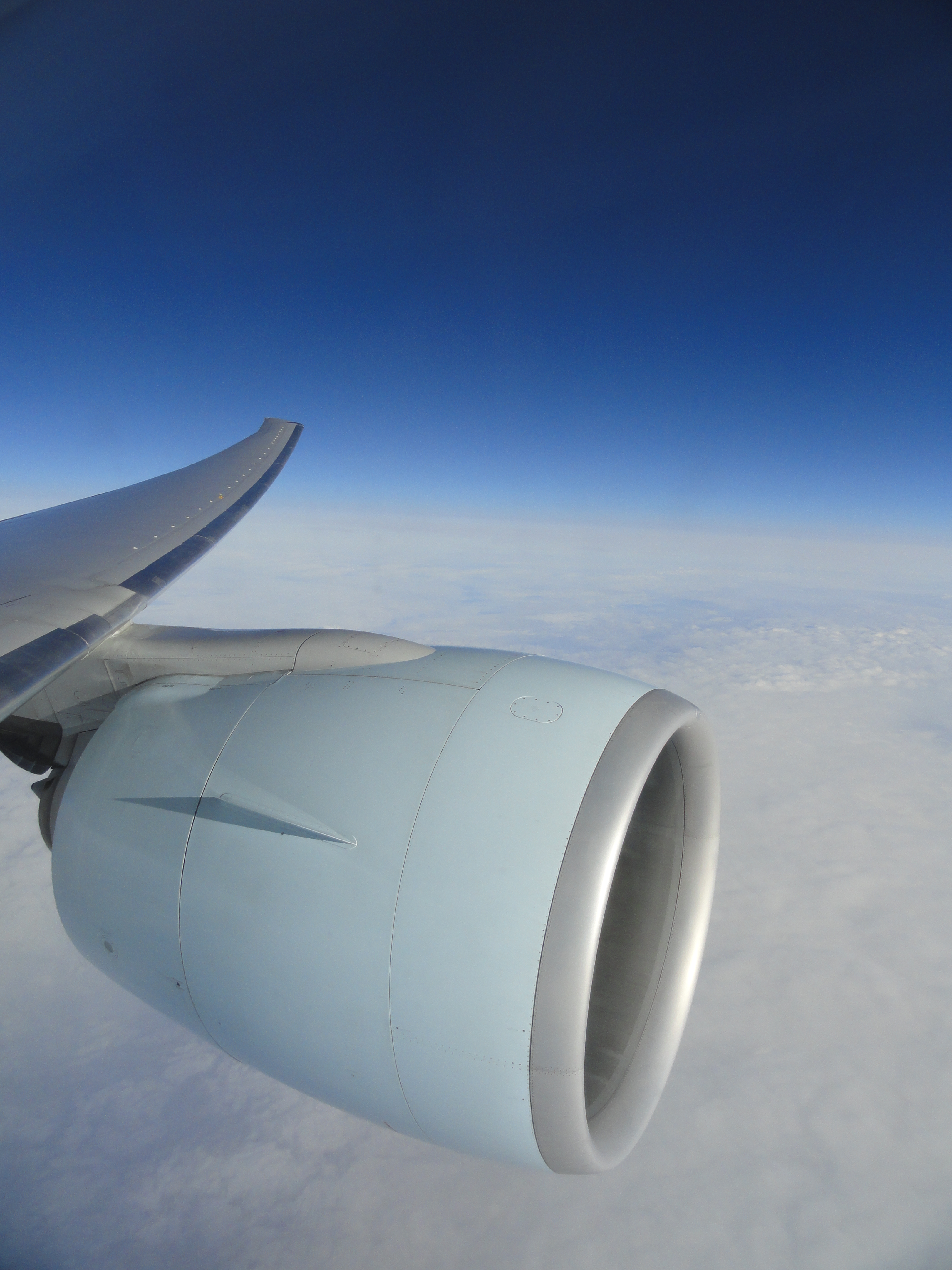 A GE90 turbofan under the wing of an Air Canada Boeing 777-200LR. In flight over Siberia, Russian Federation.